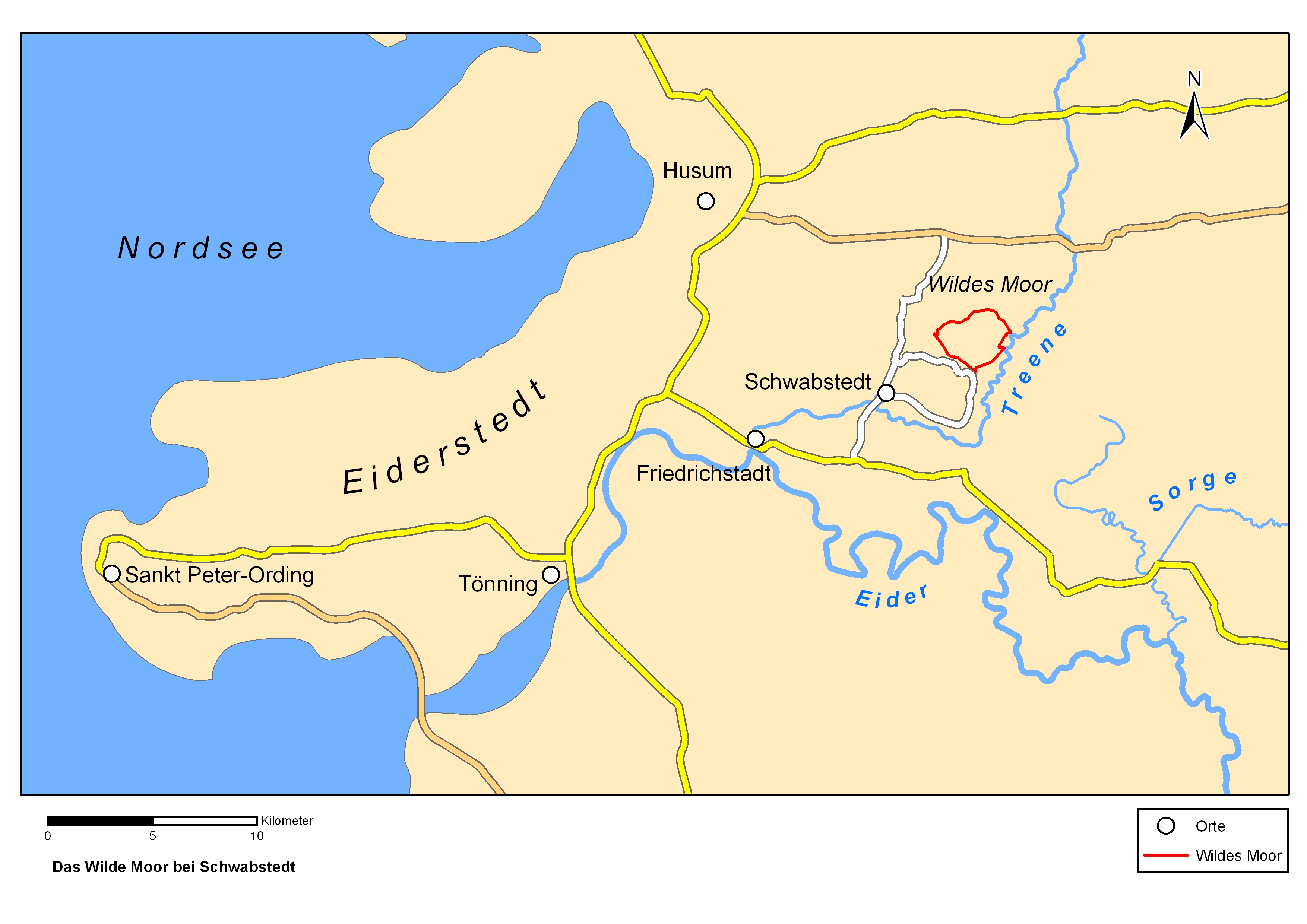 local area "Wildes Moor" mire, Schleswig-Holstein, Germany